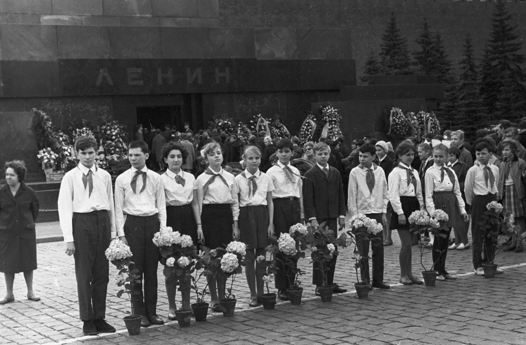 “Young Pioneers at Vladimir Lenin's Mausoleum”. Students at the Moscow school # 22 during a floral tribute to Vladimir Lenin on the day of the 98th anniversary of Lenin's birth.